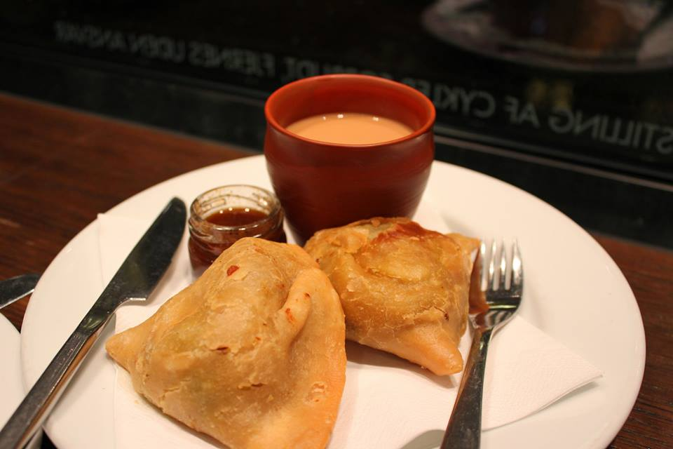 The best Evening snack for every Indian